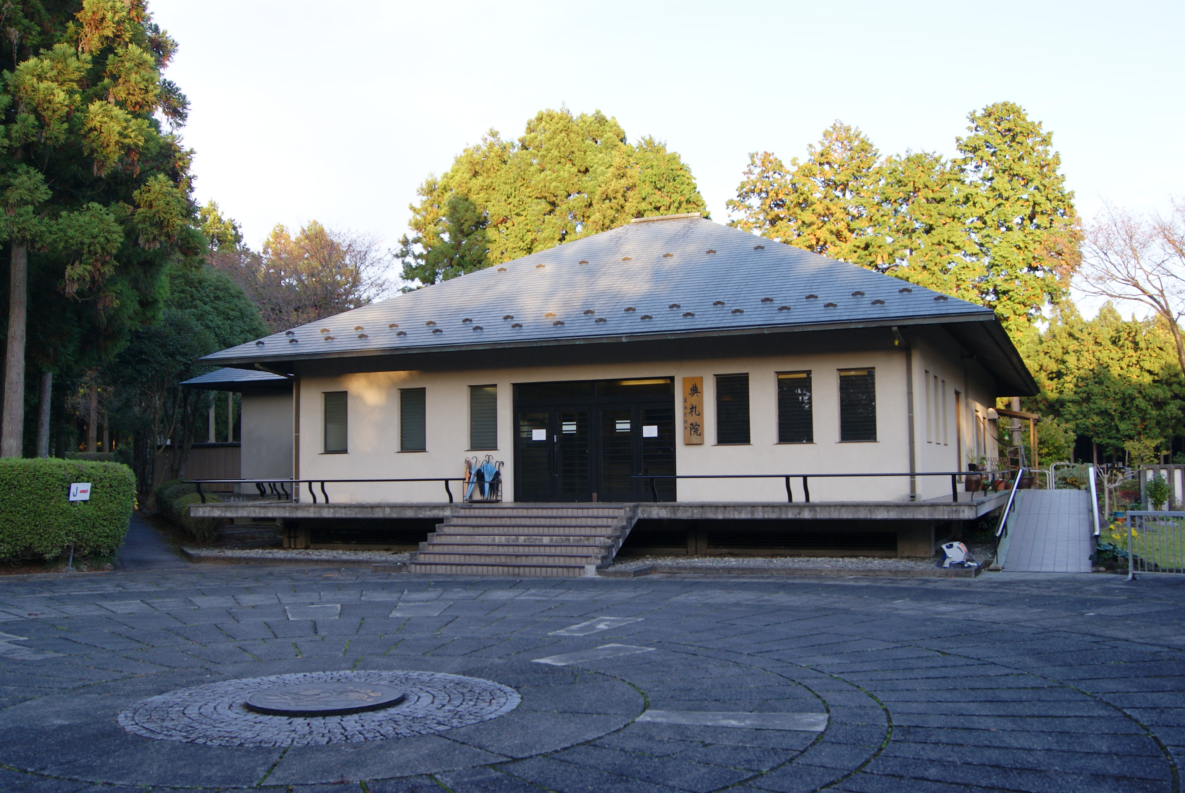 Tenreiin of Taiseki-ji.